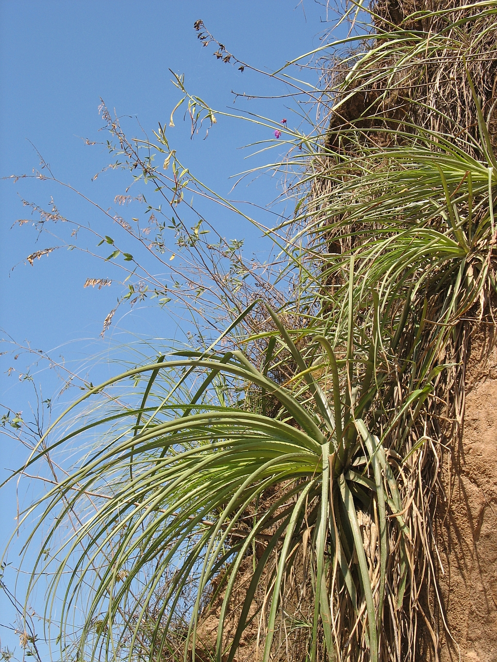 Pitcairnia lanuginosa in habitat in Bolivia, exact location unknown.